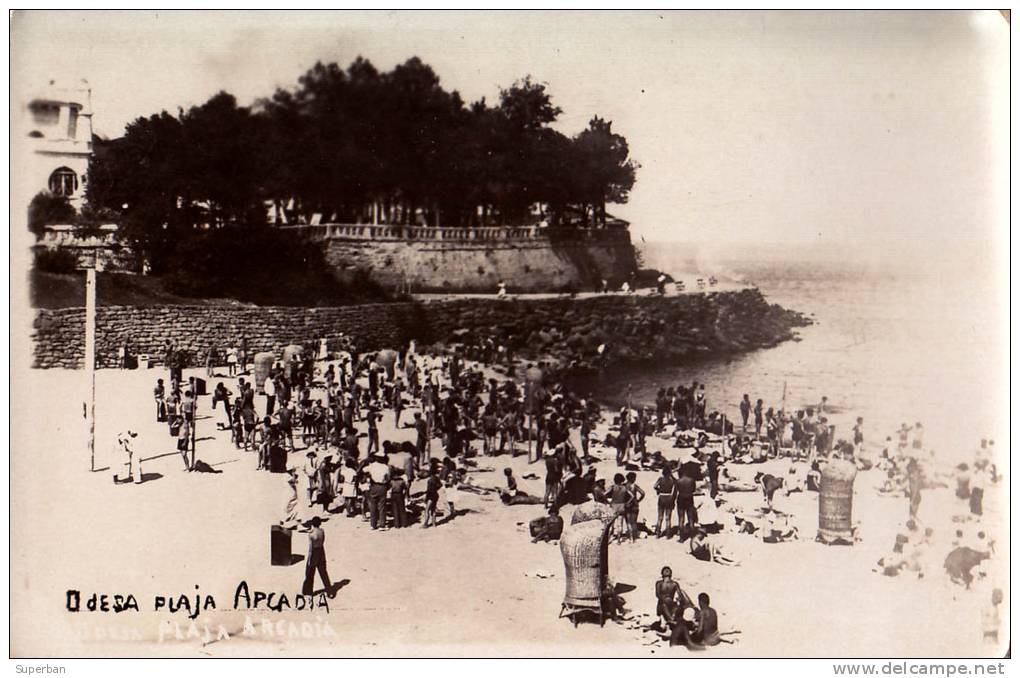 Open Letter (Carte Postale) of Transnistria times in Odessa (World War Second) with view of Arkadia beach